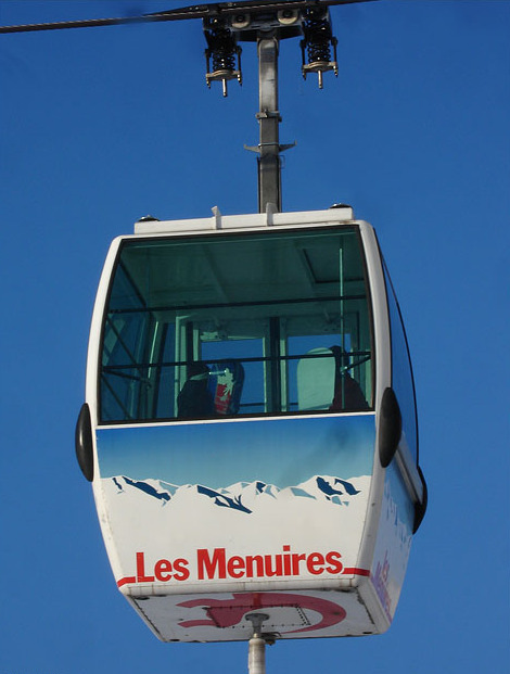 A cable lift in Les Menuires, France.